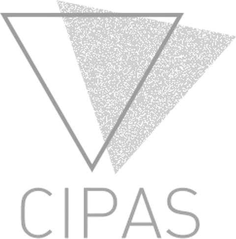 Ill-gotten Party Assets Settlement Committee logo